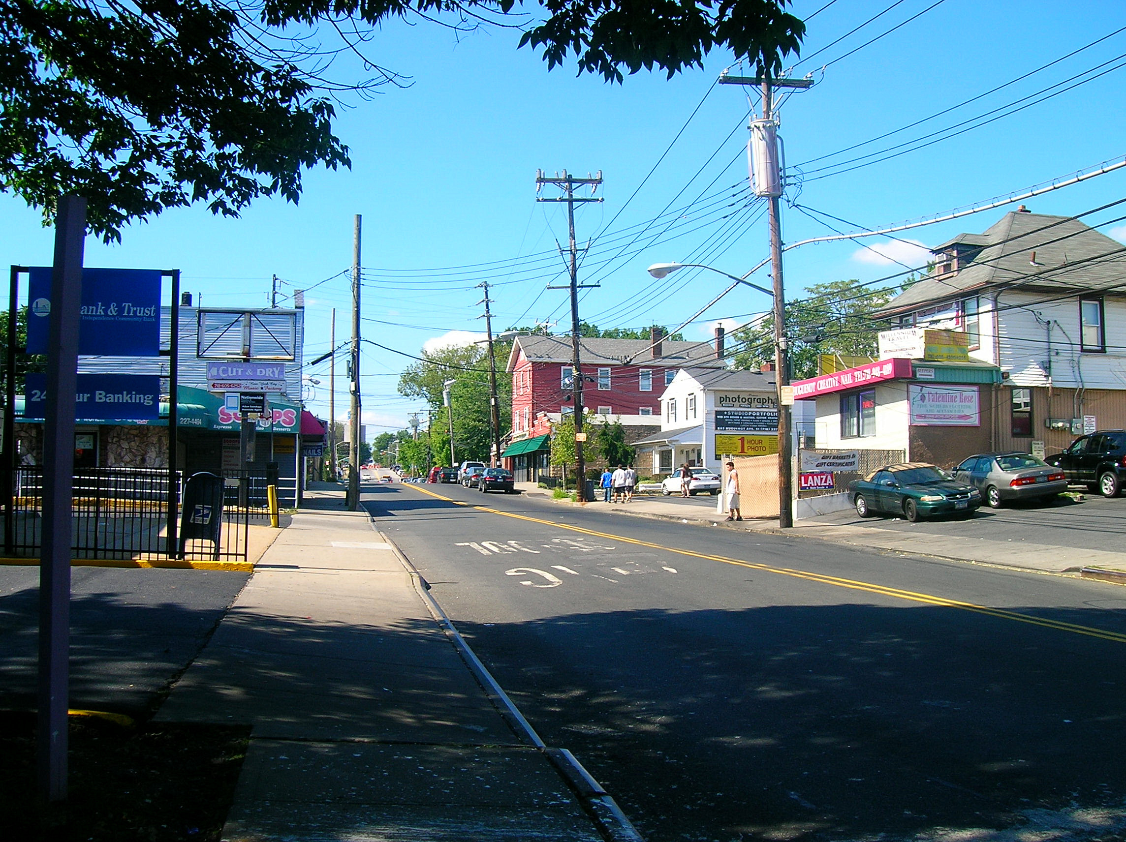 Looking north along Huguenot Road in Huguenot, Staten Island.